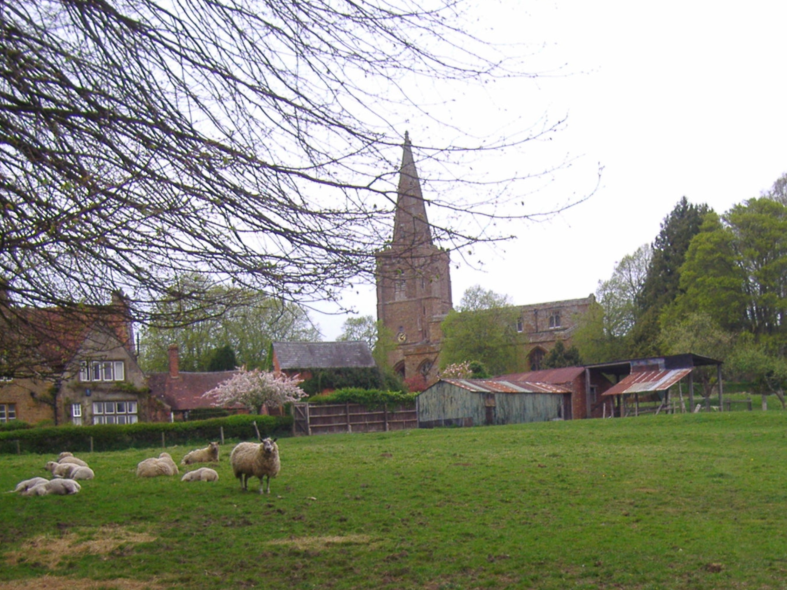 A Digital Photograph of Newnham, Nothamptonshire